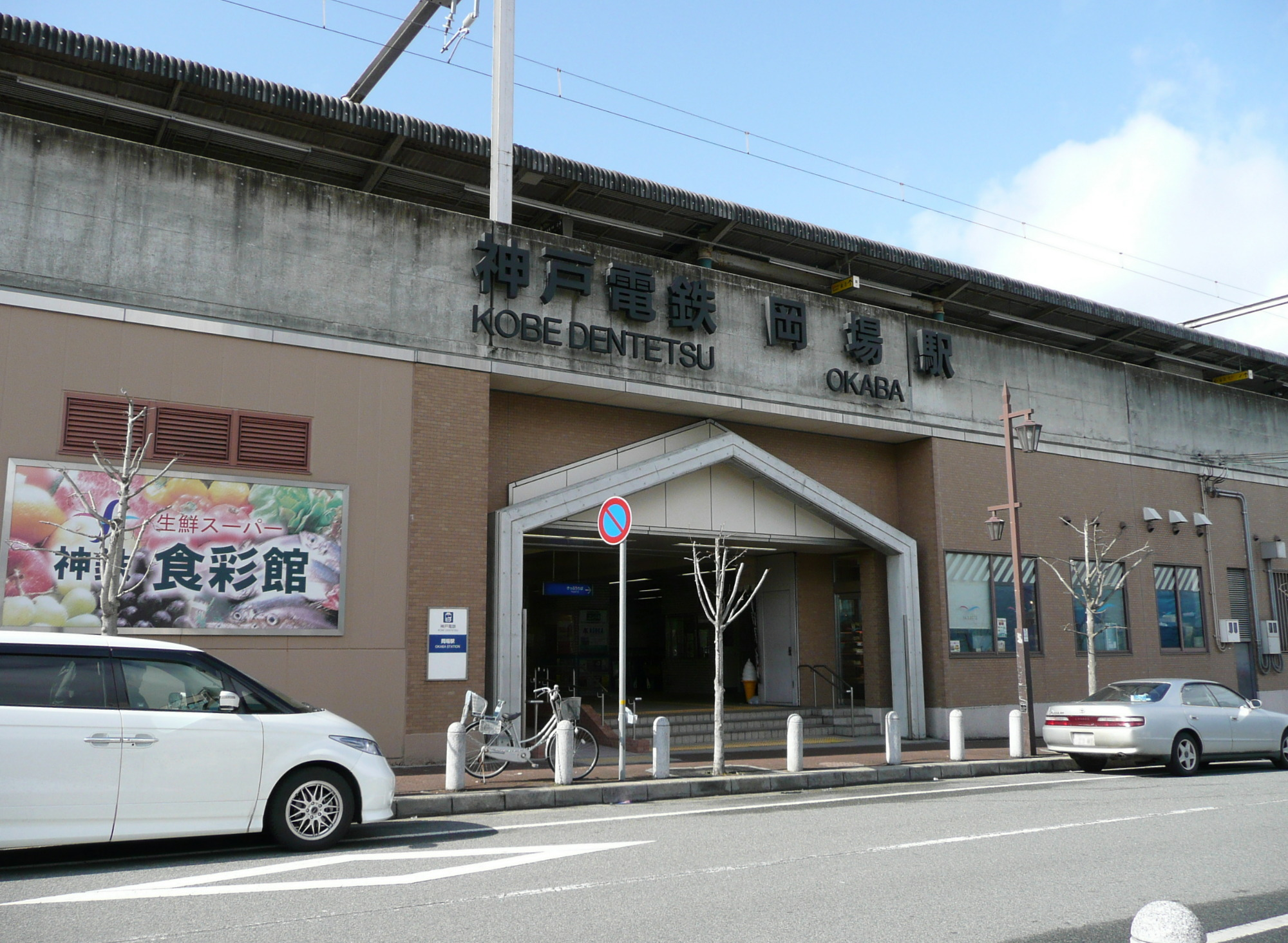 Kobe Electric Railway Okaba Station east side